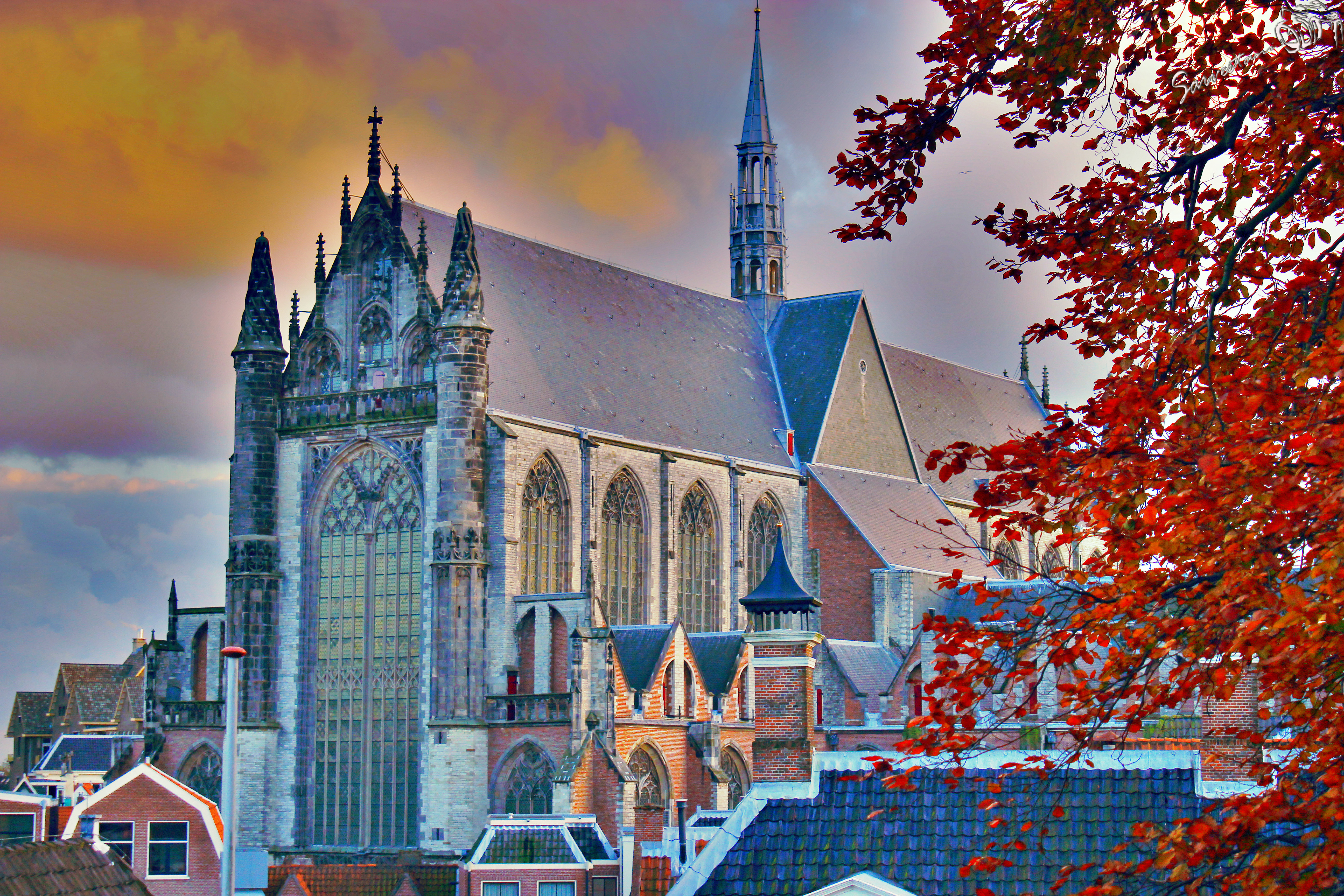 Hooglandse Kerk ,Leiden, Netherlands